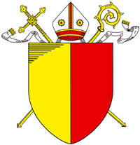 Coat of arms of the diocese of Hildesheim, Germany, as it is used today